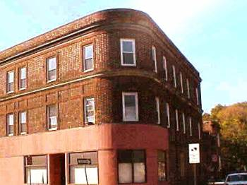 George Basserman Building State Street New Haven, Connecticut. Rock Brewery employees formerly lived in this building.